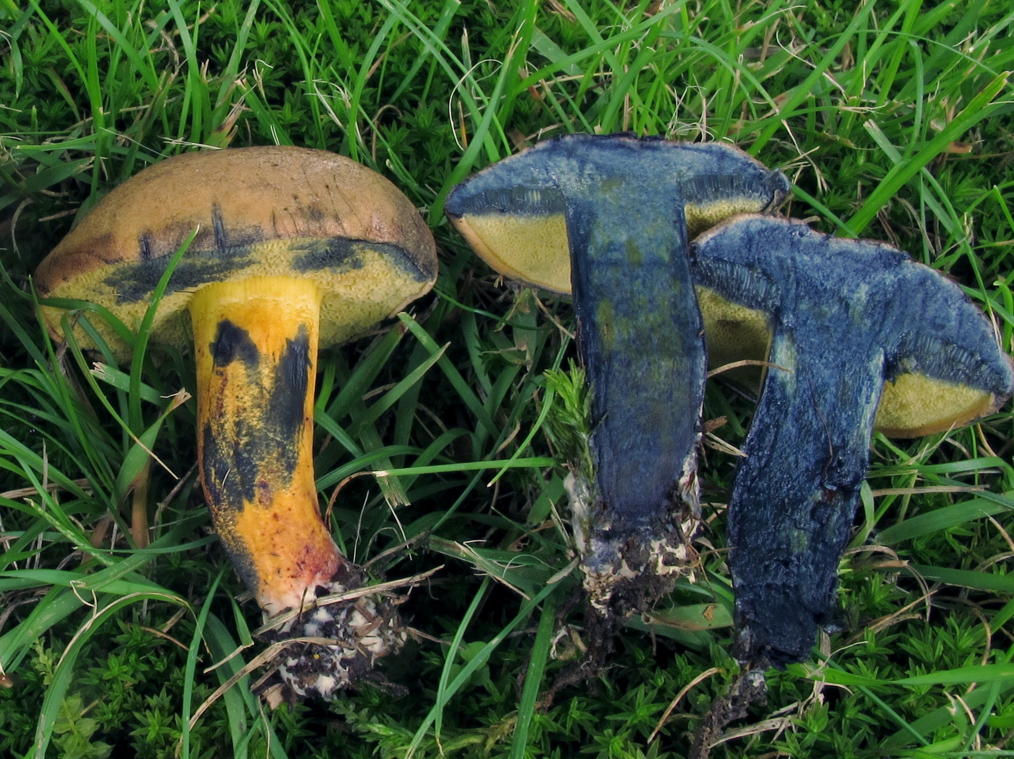 Boletus pulverulentus Opat. Image location: Grandview Cemetery, Salem, Ohio, USA Recognized by sight For more information about this, see the observation page at Mushroom Observer.